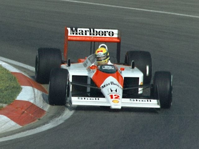 Ayrton Senna driving for McLaren at the 1988 Canadian Grand Prix.